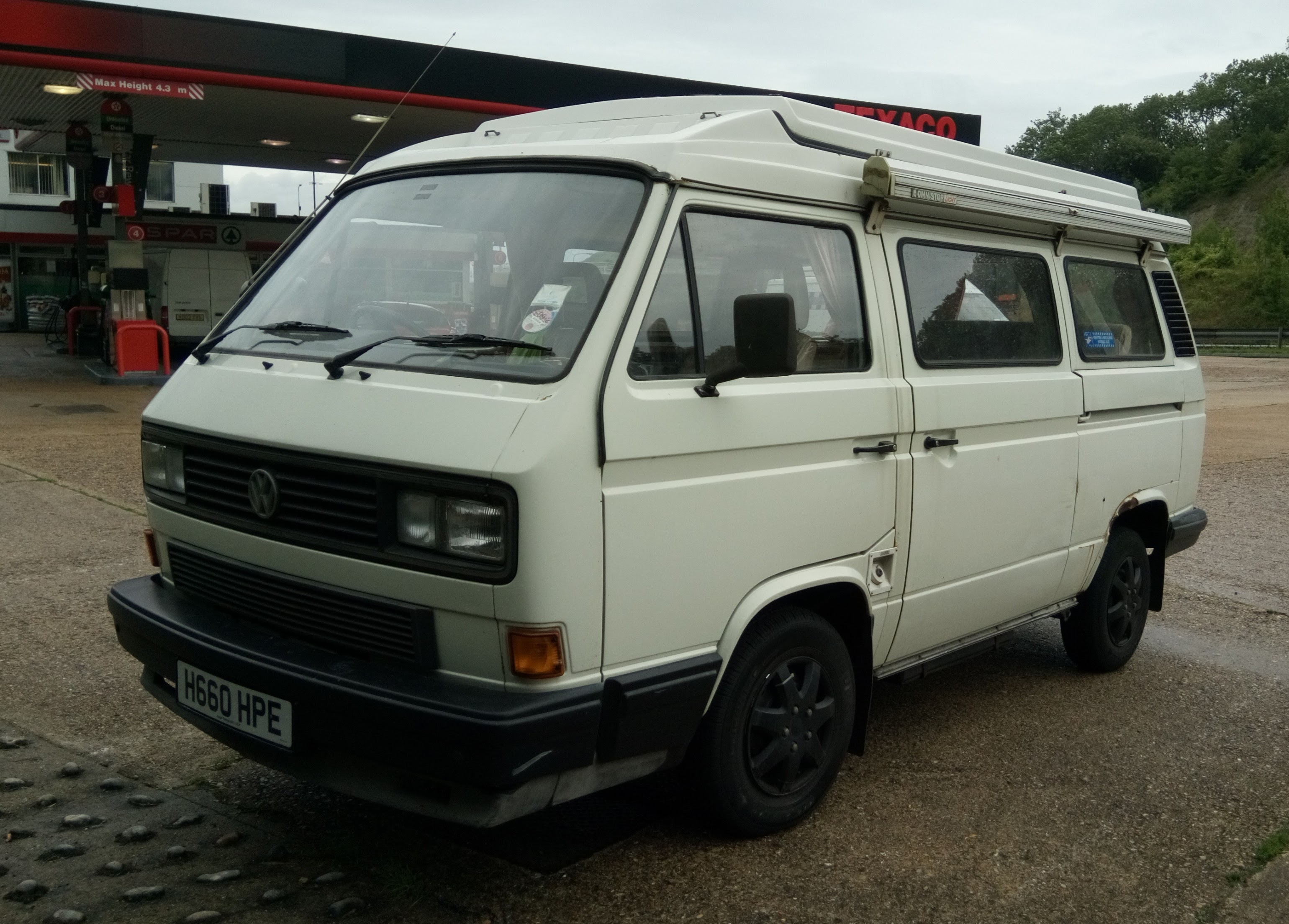 A white Volkswagen T3 Camper in East Sussex,United Kingdom